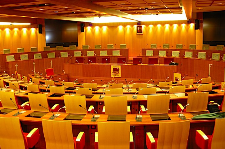 Conseil régional de la Guyane briefing room.